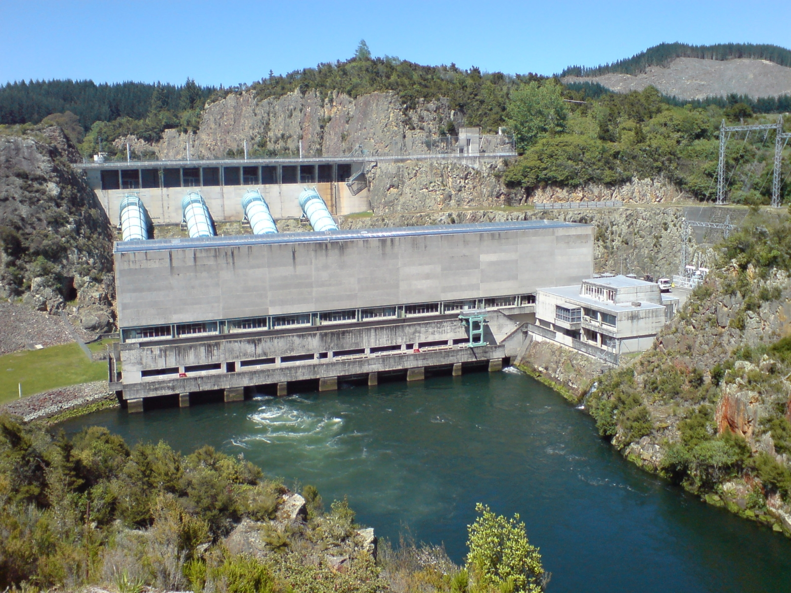 The Ohakuri Dam, Waikato Region, New Zealand. Photographed from the northern side of the valley. The actual earth dam is out of the image on the left.